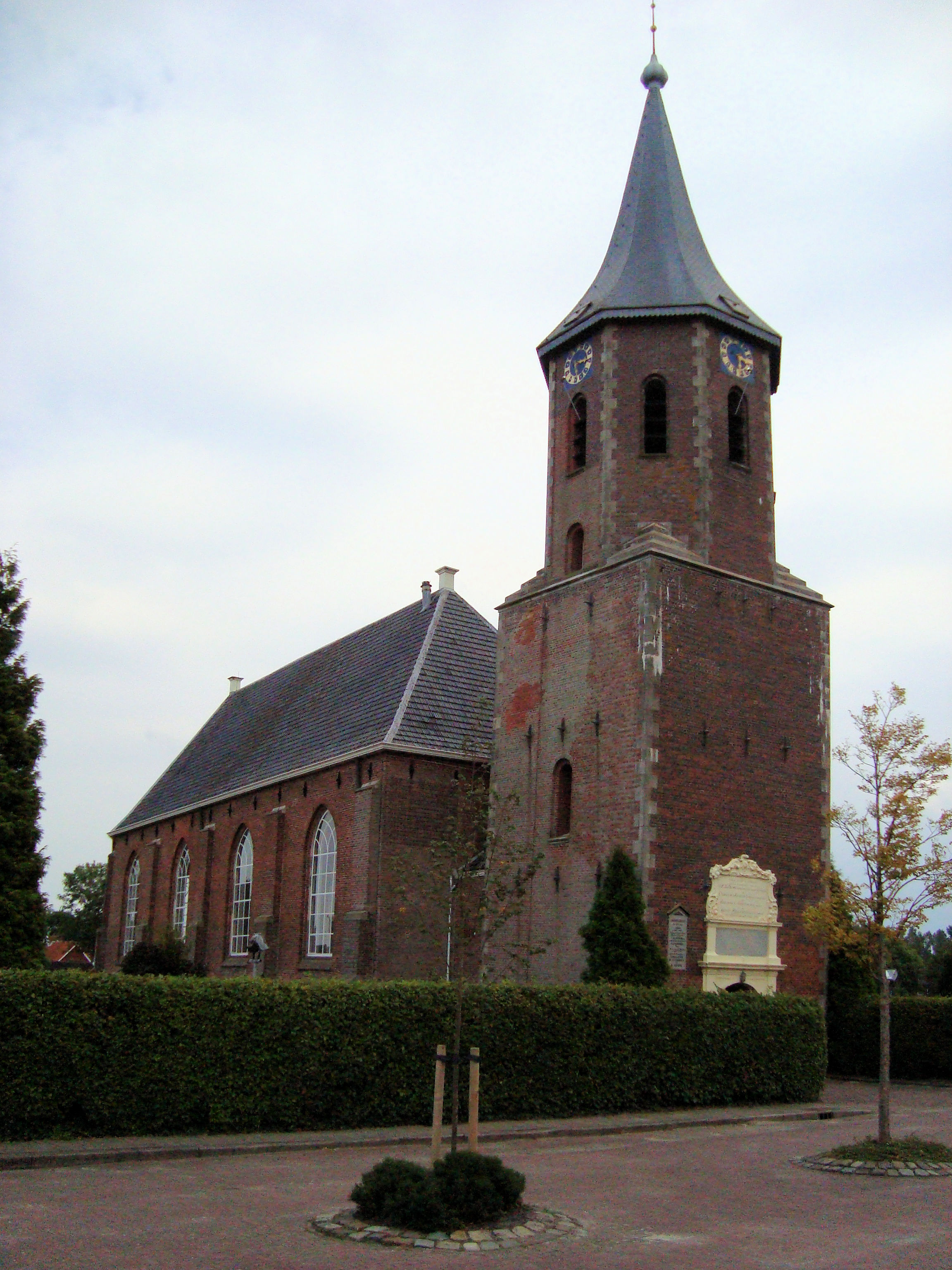 Protestant church in Nieuwolda, Groningen, the Netherlands